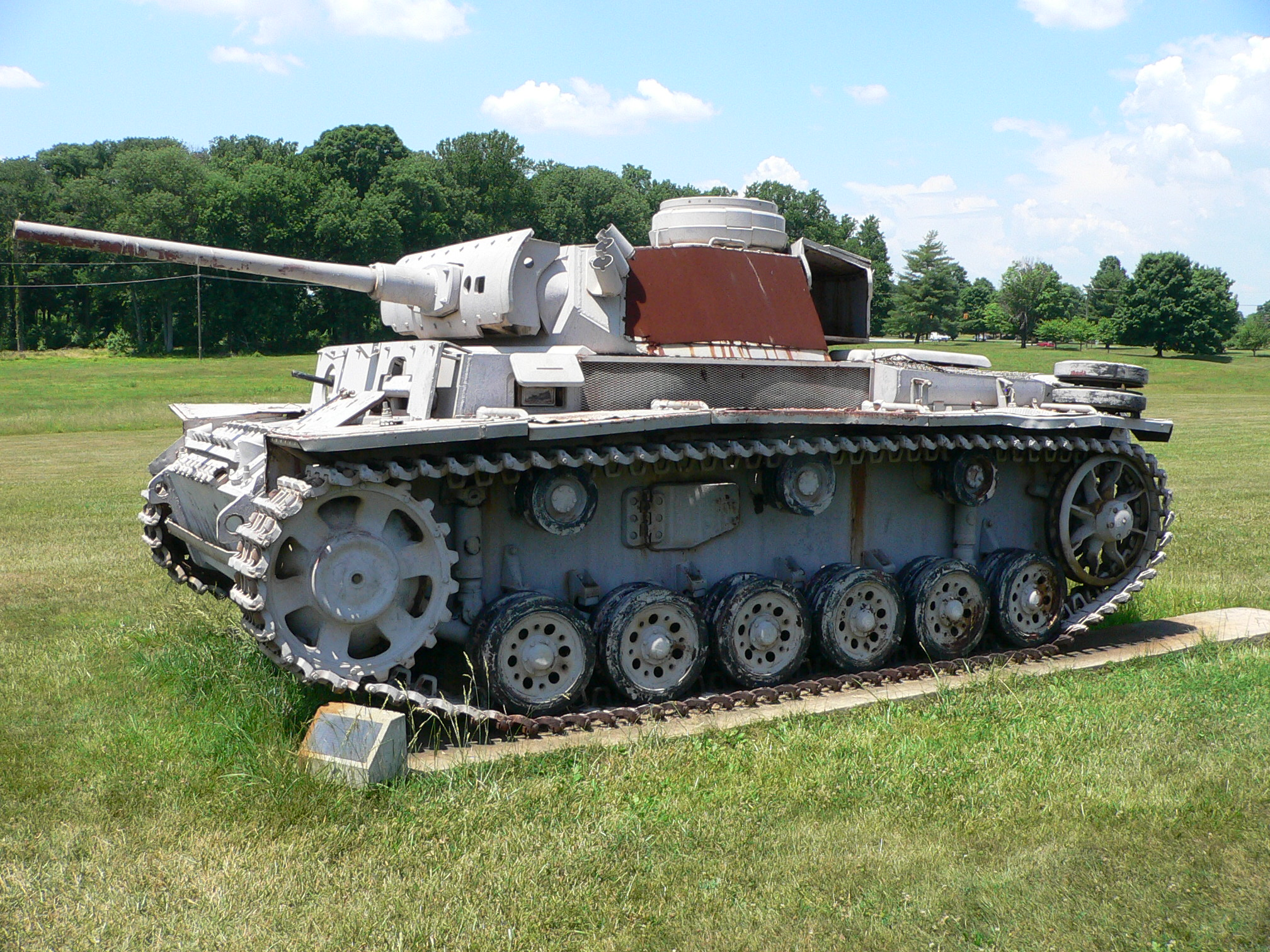 Picture taken by myself, Mark Pellegrini, at the United States Army Ordnance Museum (Aberdeen Proving Ground, MD) on June 12, 2007.